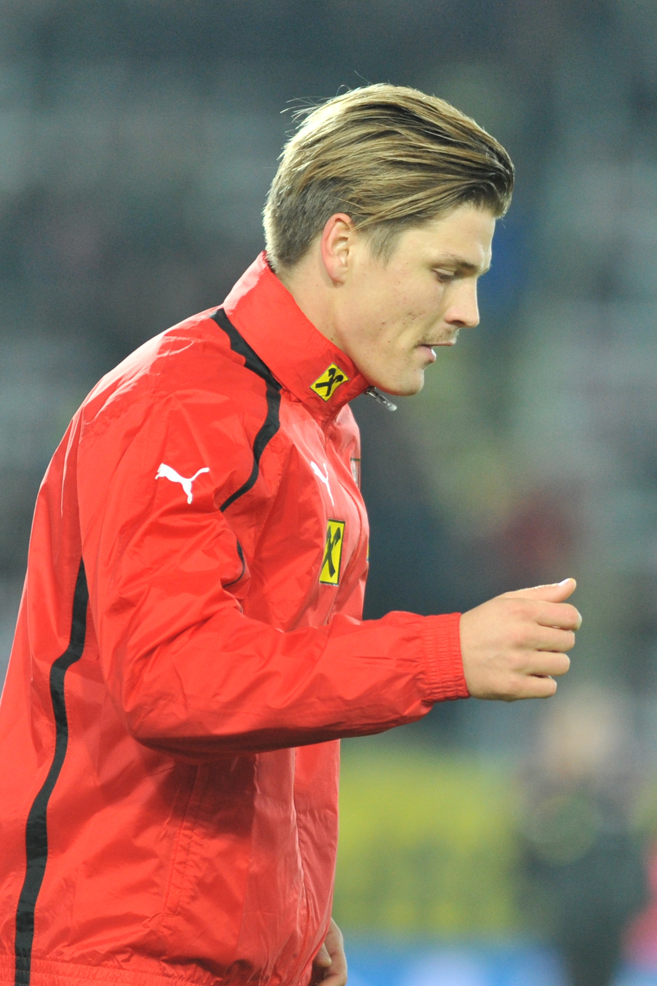 ÖFB freundschaftliches Länderspiel - Österreich vs Elfenbeinküste am 14. November 2012 The making of this work was supported by Wikimedia Austria. For other files made with the support of Wikimedia Austria, please see the category Supported by Wikimedia Österreich. 15: Sebastian Prödl